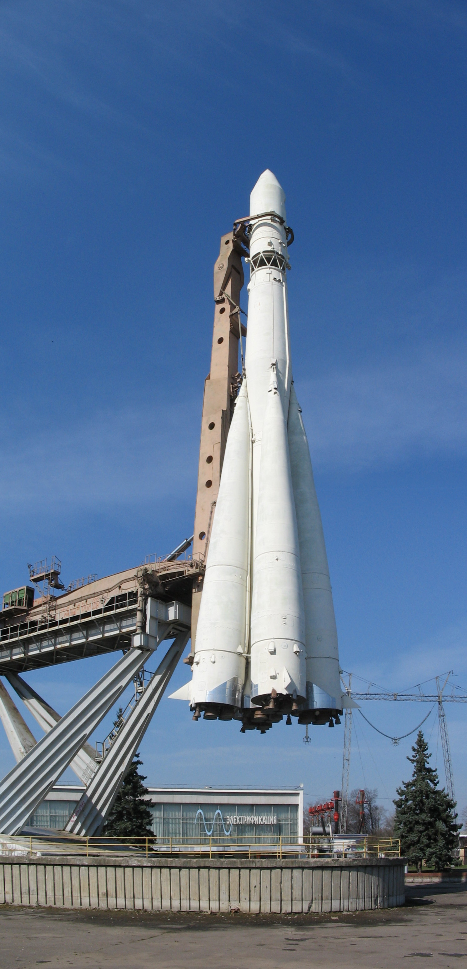 Wostok launcher at VDNKh Moscow